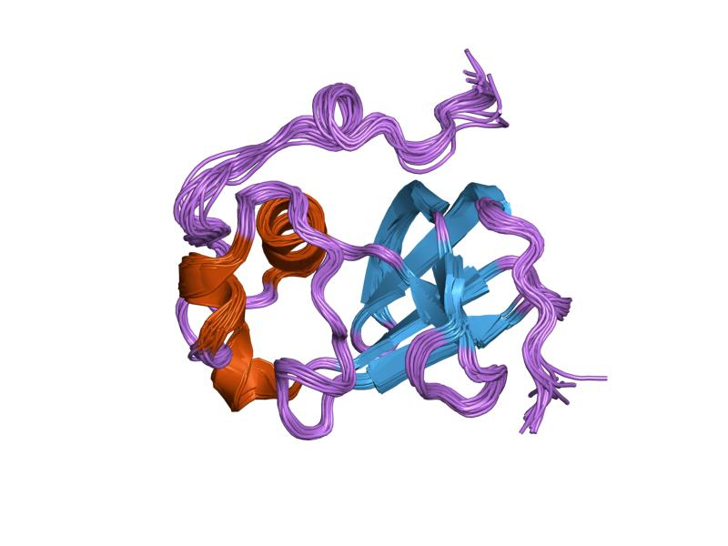 Cartoon representation of the molecular structure of protein registered with 1zdv code.